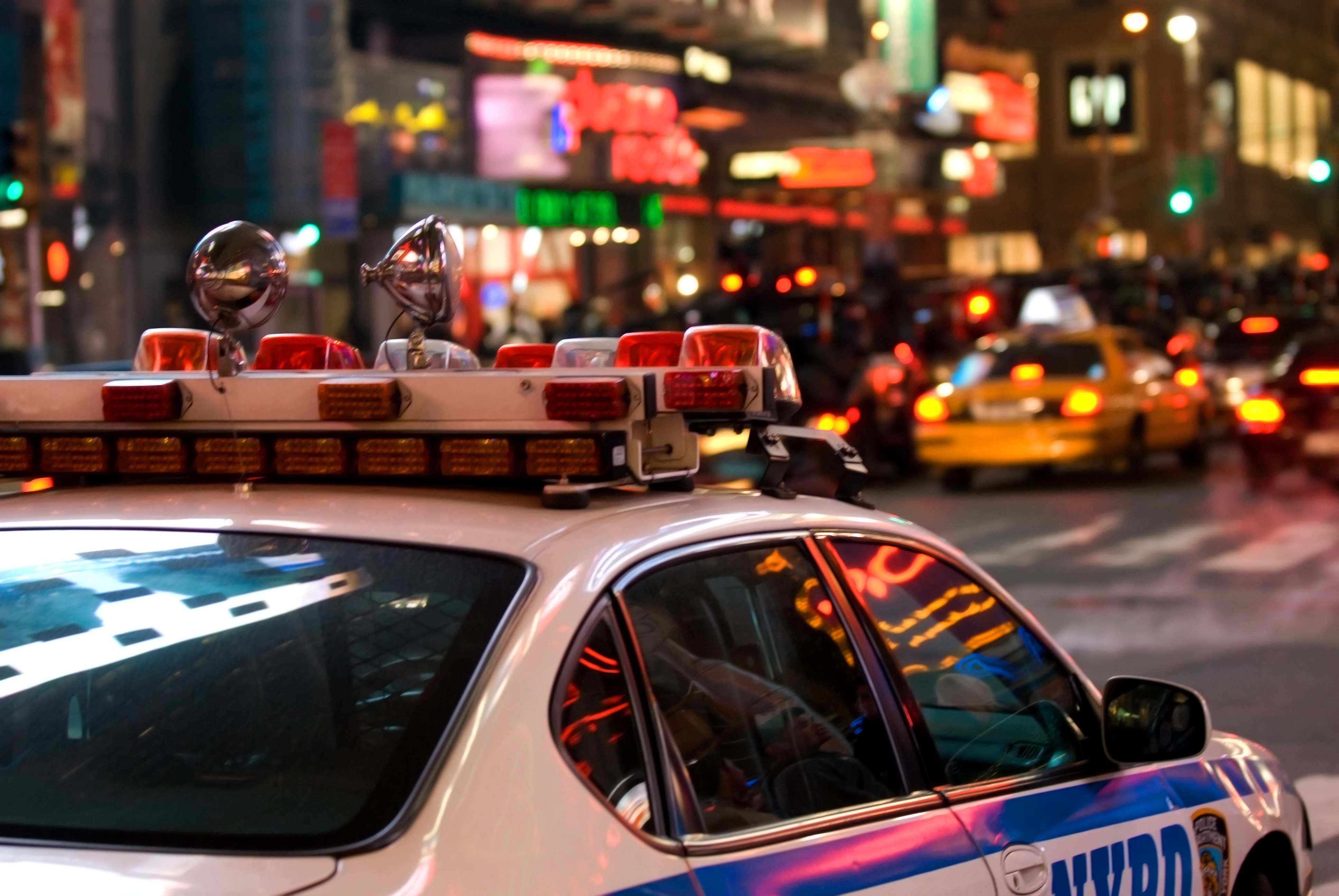 Reflections next to the Yahoo! sign in Times Square View Large on Black